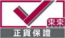 Designated by Royal Group